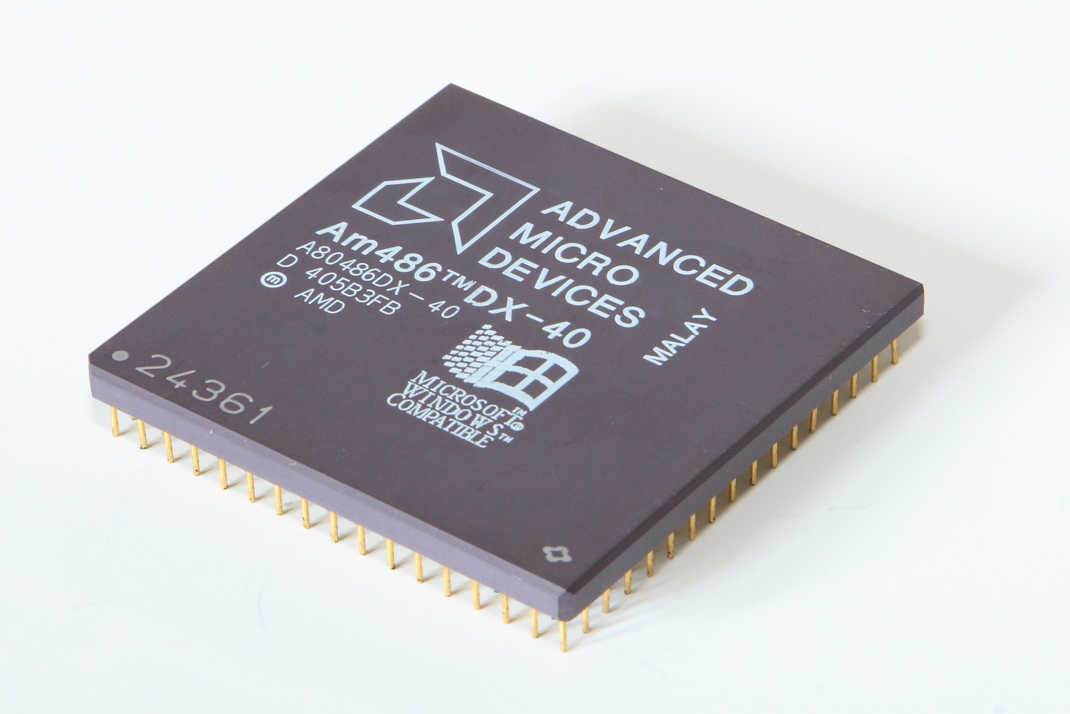 AMD Am486DX 40MHz Camera data Camera Canon EOS 30D Lens Canon EF 24-70 mm 2.8 L USM Focal length 70 mm Aperture f/19 Exposure time 15 s Sensivity ISO 100 Image Editing Programs Canon Digital Photo Professional